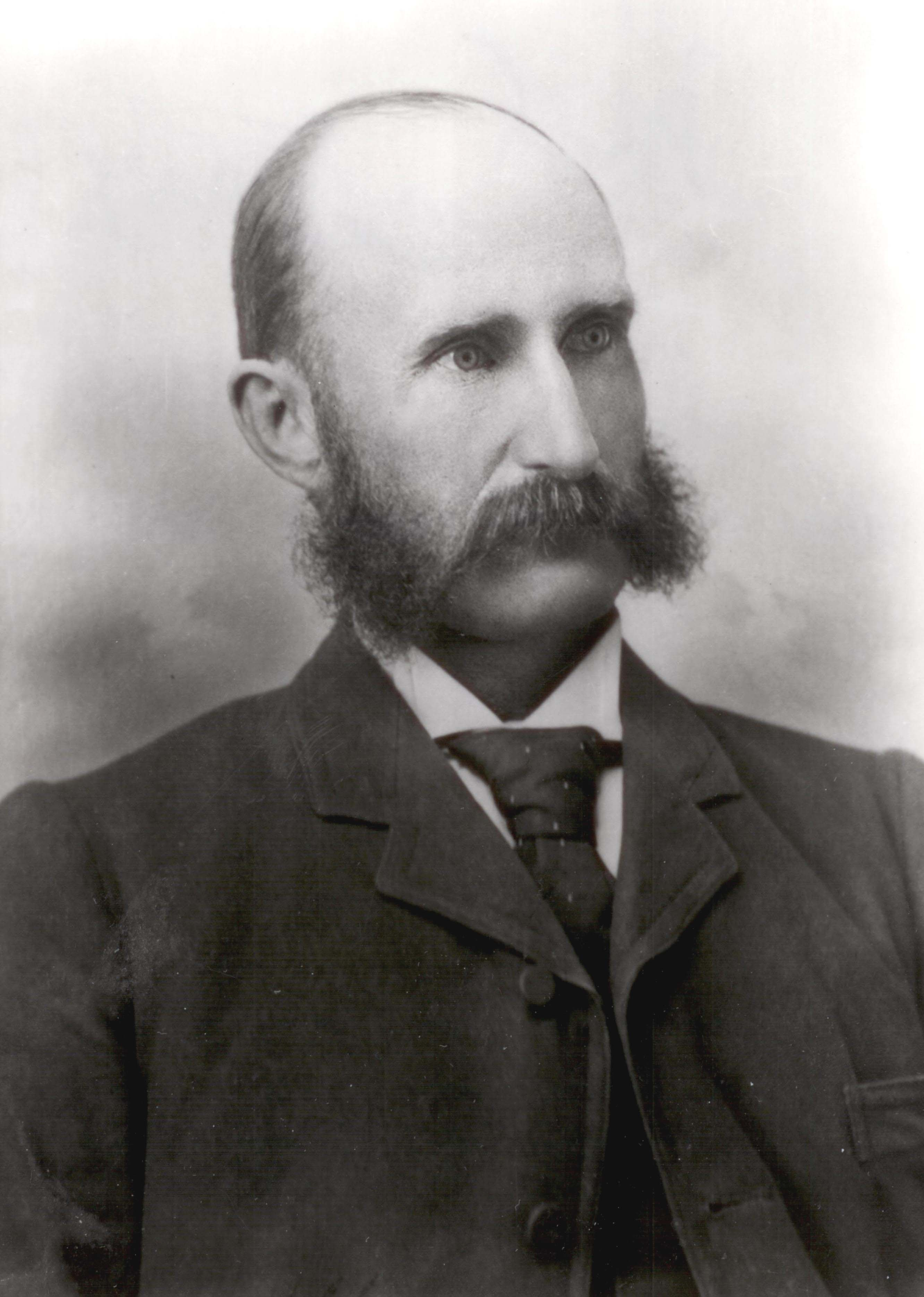 Matthew McCauley (July 11, 1850 – October 25, 1930) was the first mayor of the city of Edmonton, and a member of the legislative assemblies of both the Northwest Territories and Alberta.